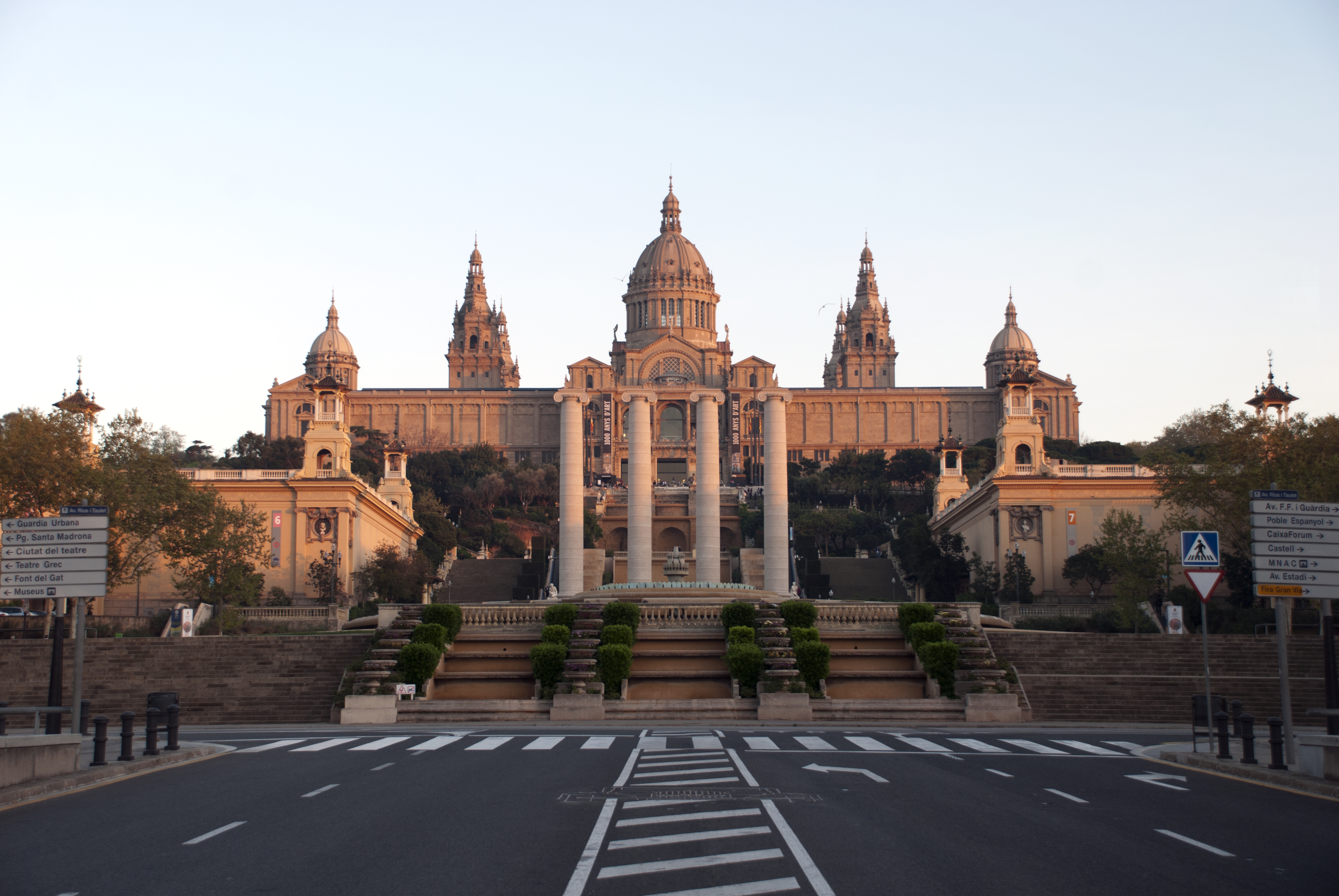 Puig i Cadafalch four columns in MontJuïc Palace